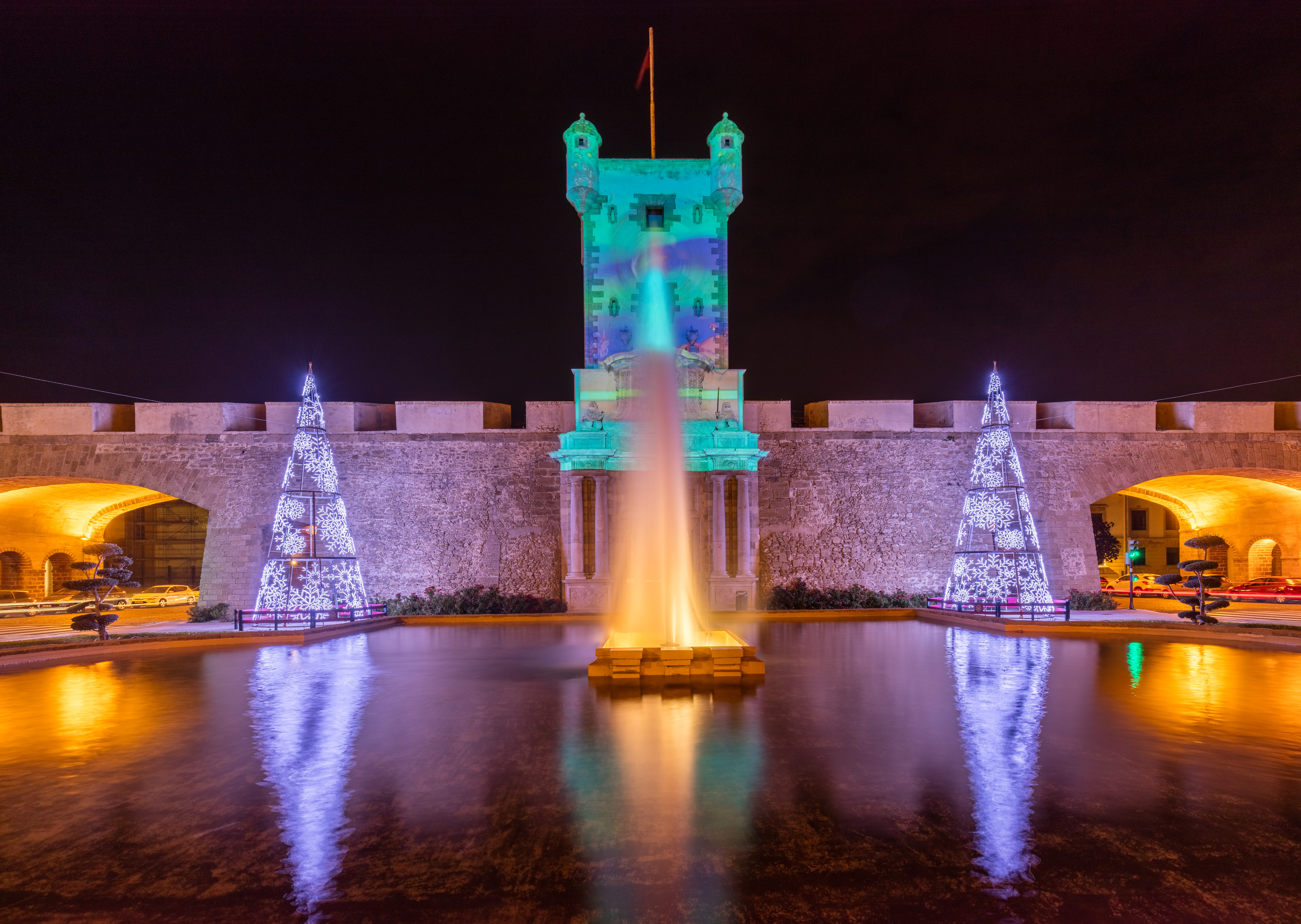 Puerta de Tierra, Cádiz, Spain